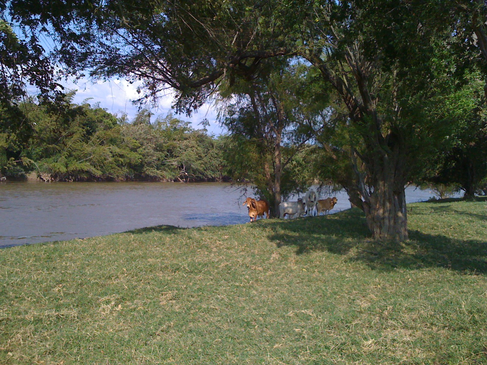 Cauca River. Cattle resting in San Marcos, Yotoco, Valle del Cauca, Colombia.